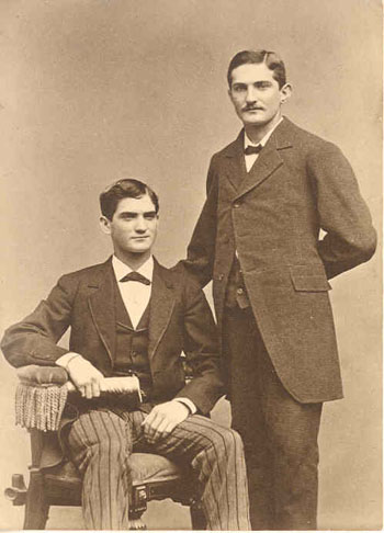 Moses Cone and his brother Ceasar Cone